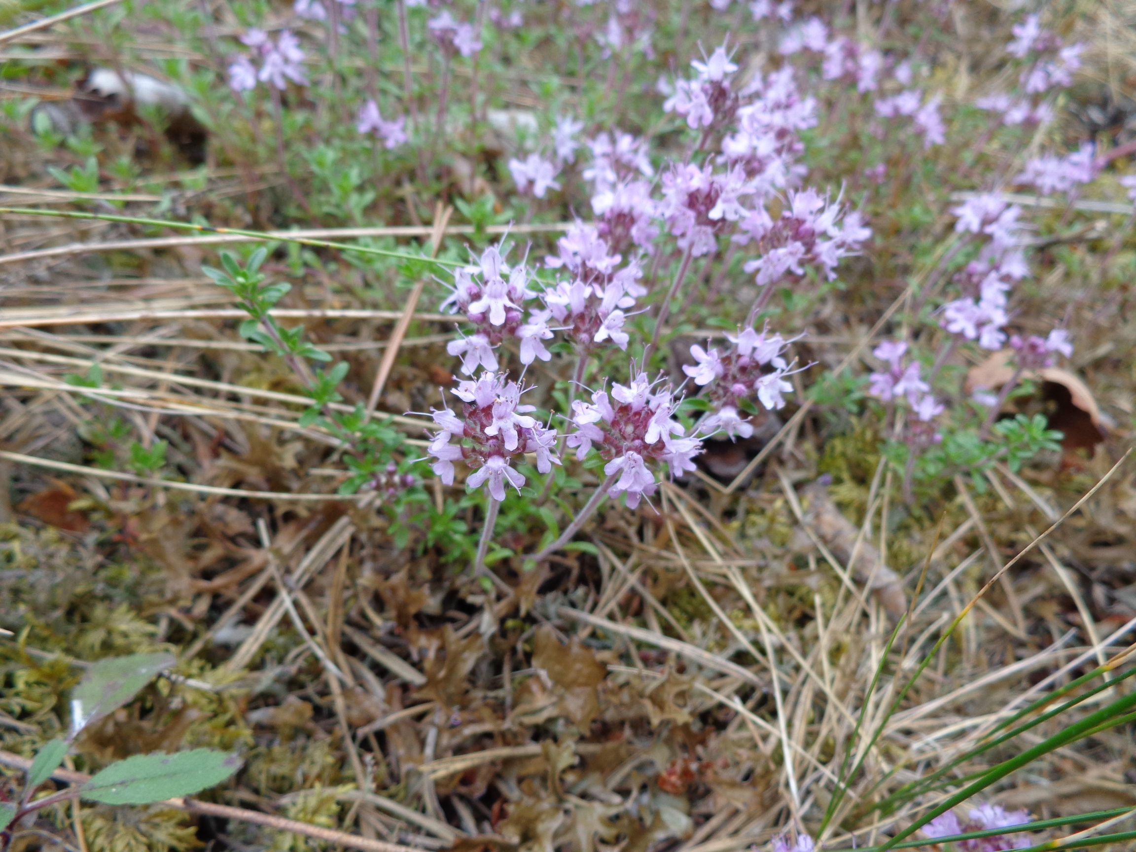 Thymus vulgaris. Found in Jūrmala city, Latvia